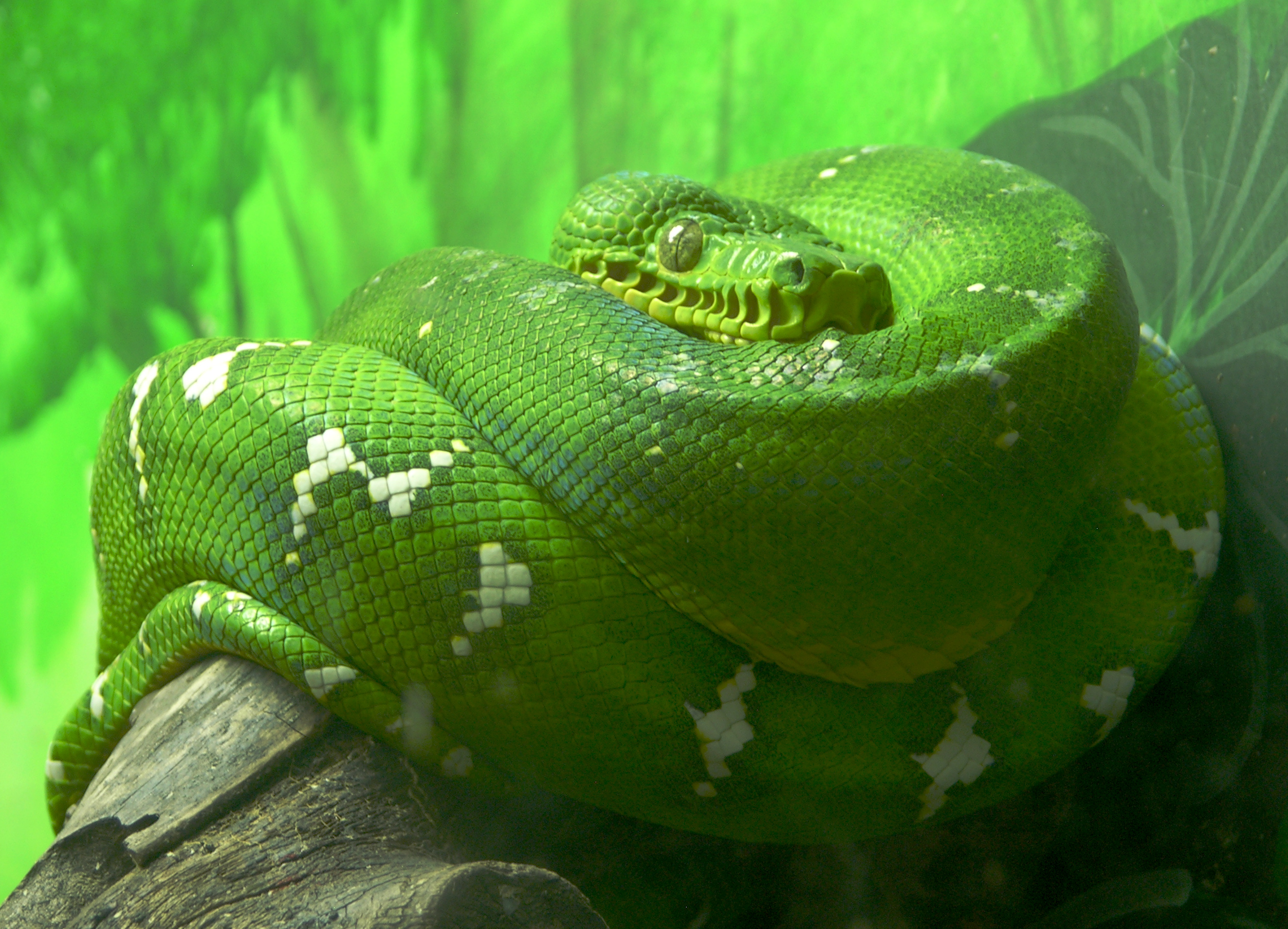 A photograph of the Emerald tree boa (Corallus caninus). Photo taken at the Philadelphia Zoo.